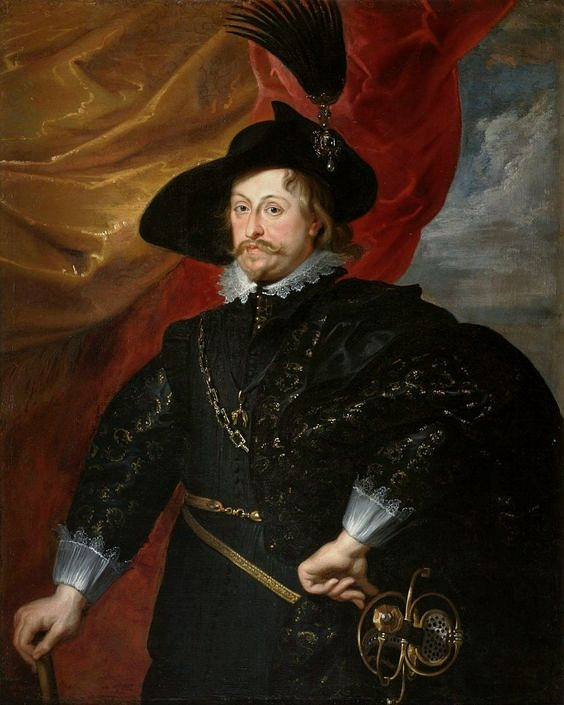 Pendant of Portrait of Sigismund III Vasa.